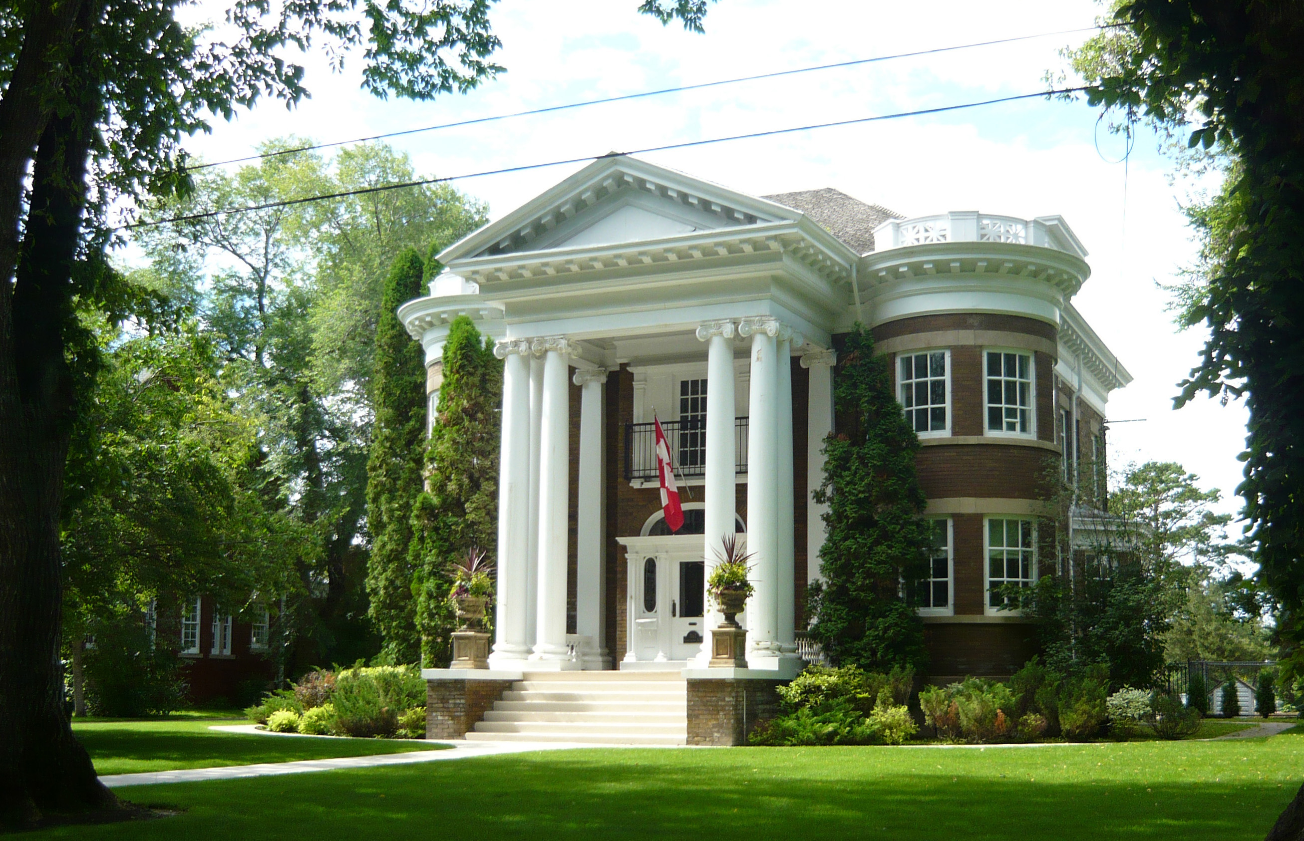 Hopkins House, 307 Saskatchewan Crescent West, Saskatoon, Saskatchewan, Canada. Built in 1910 for then-mayor William Hopkins. Architect: David Webster. Later known as Evergreen Lodge (apartments). From 1960 to 1980, it was owned by a Catholic religious order and known as De Mazenod Hall.